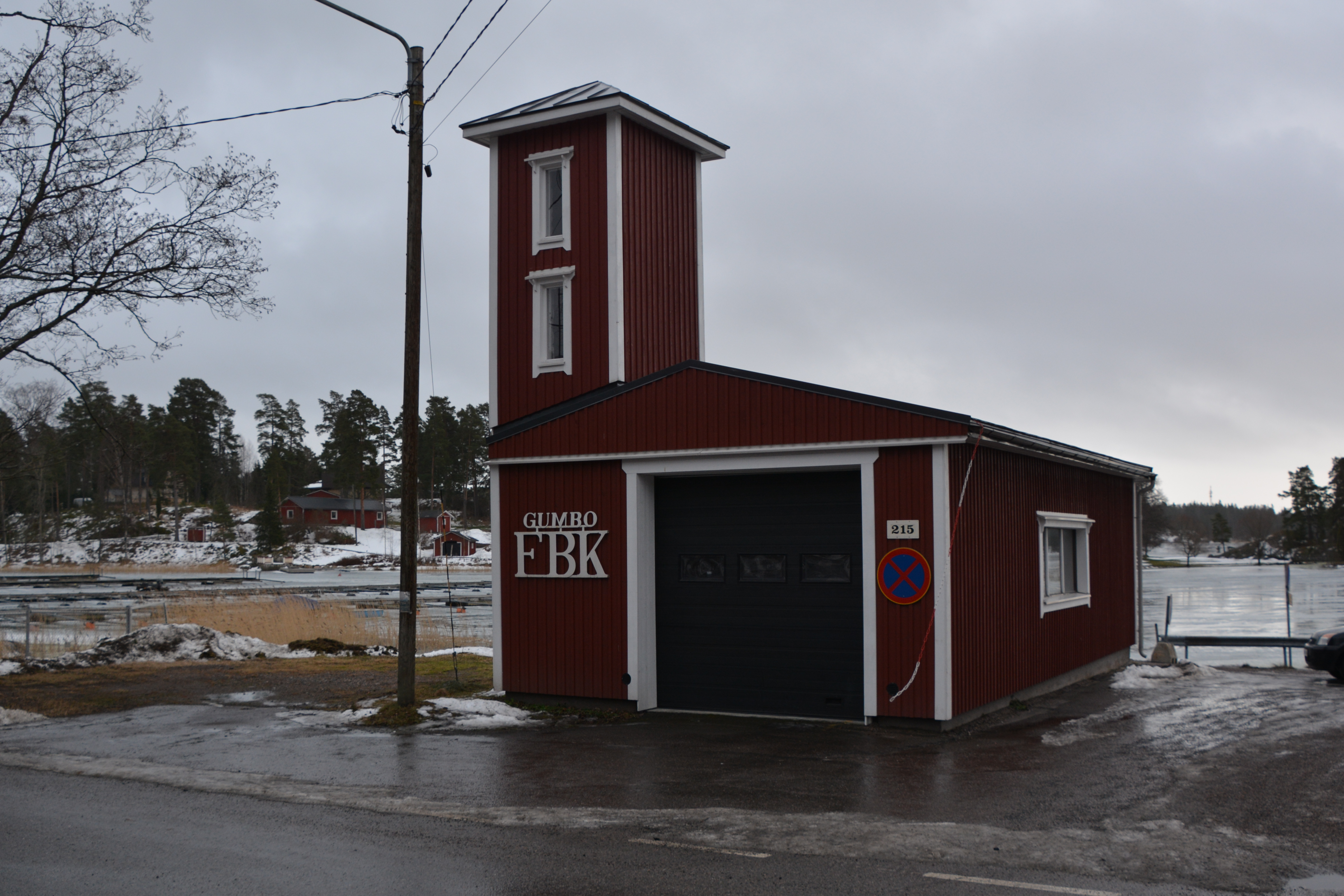 Gumbostrands Frivilliga Brandkårs stationshus